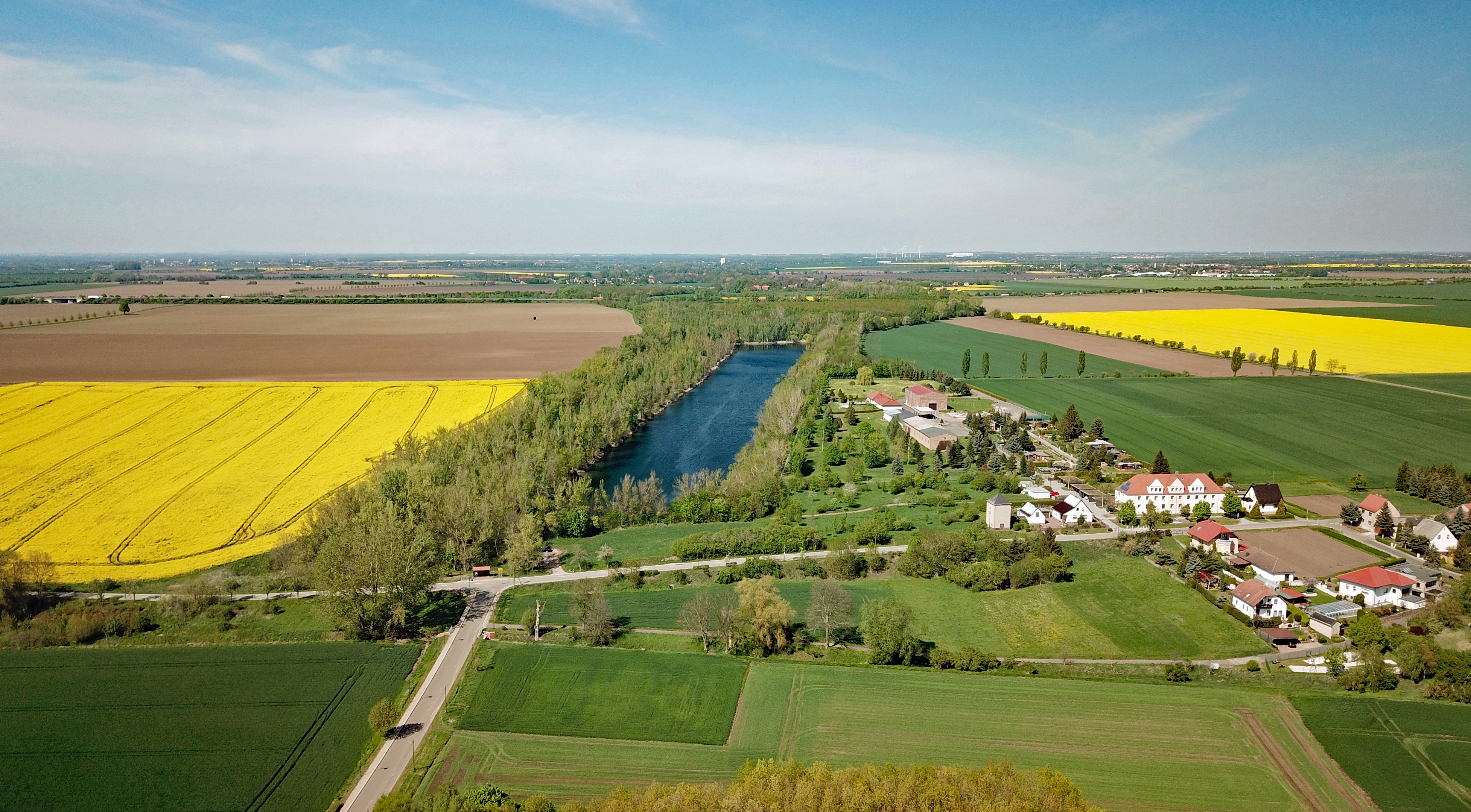 Gostau, Lützen, Saxony-Anhalt, Germany